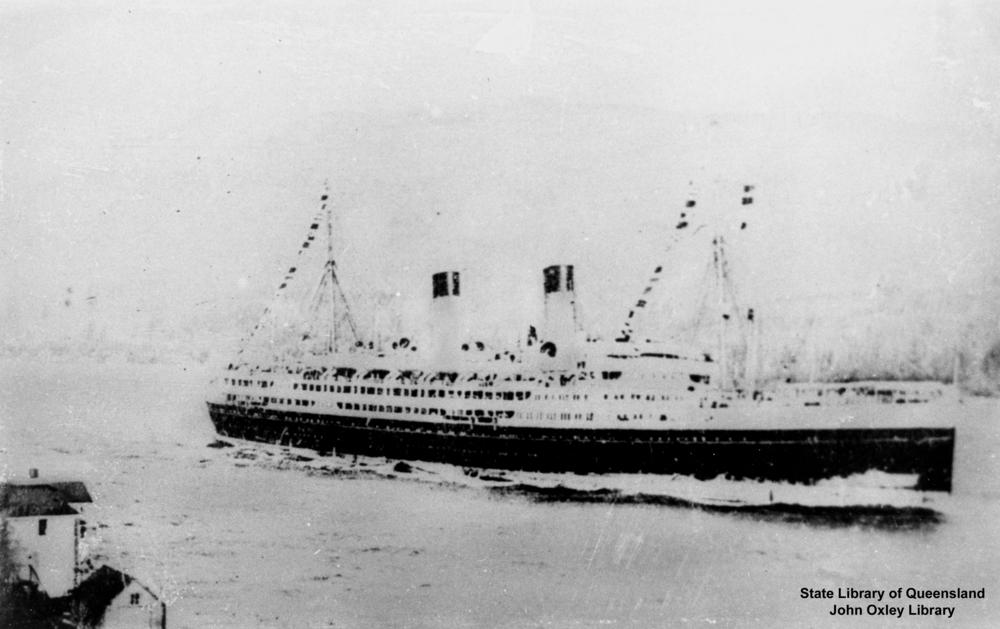 17,491 GRT passenger liner Aorangi, built in 1924 by Fairfield & Co of Govan for Canadian Australasian Line. She was scrapped in 1953.